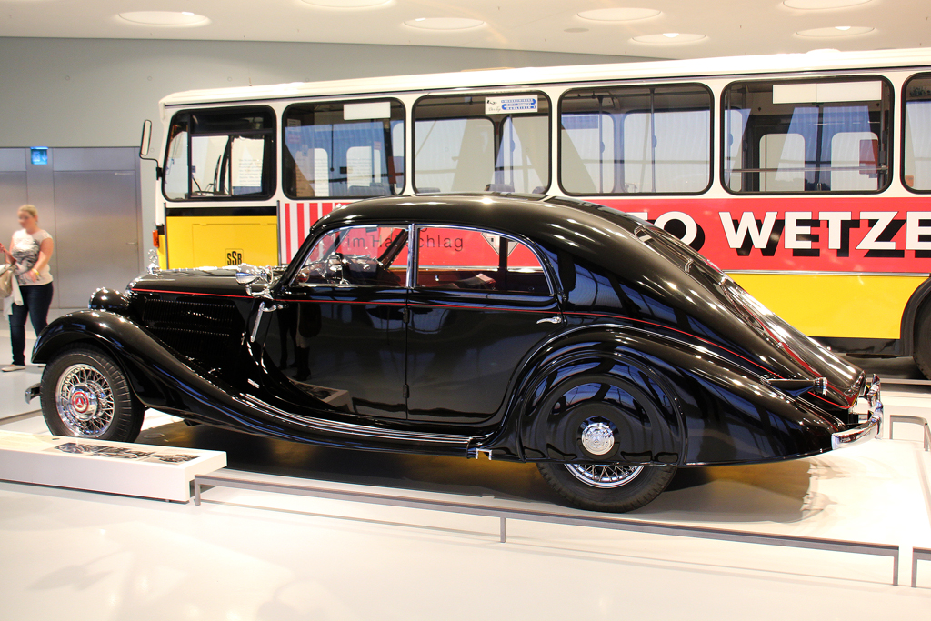 Visit at the Mercedes-Benz Museum, 09.04.2011